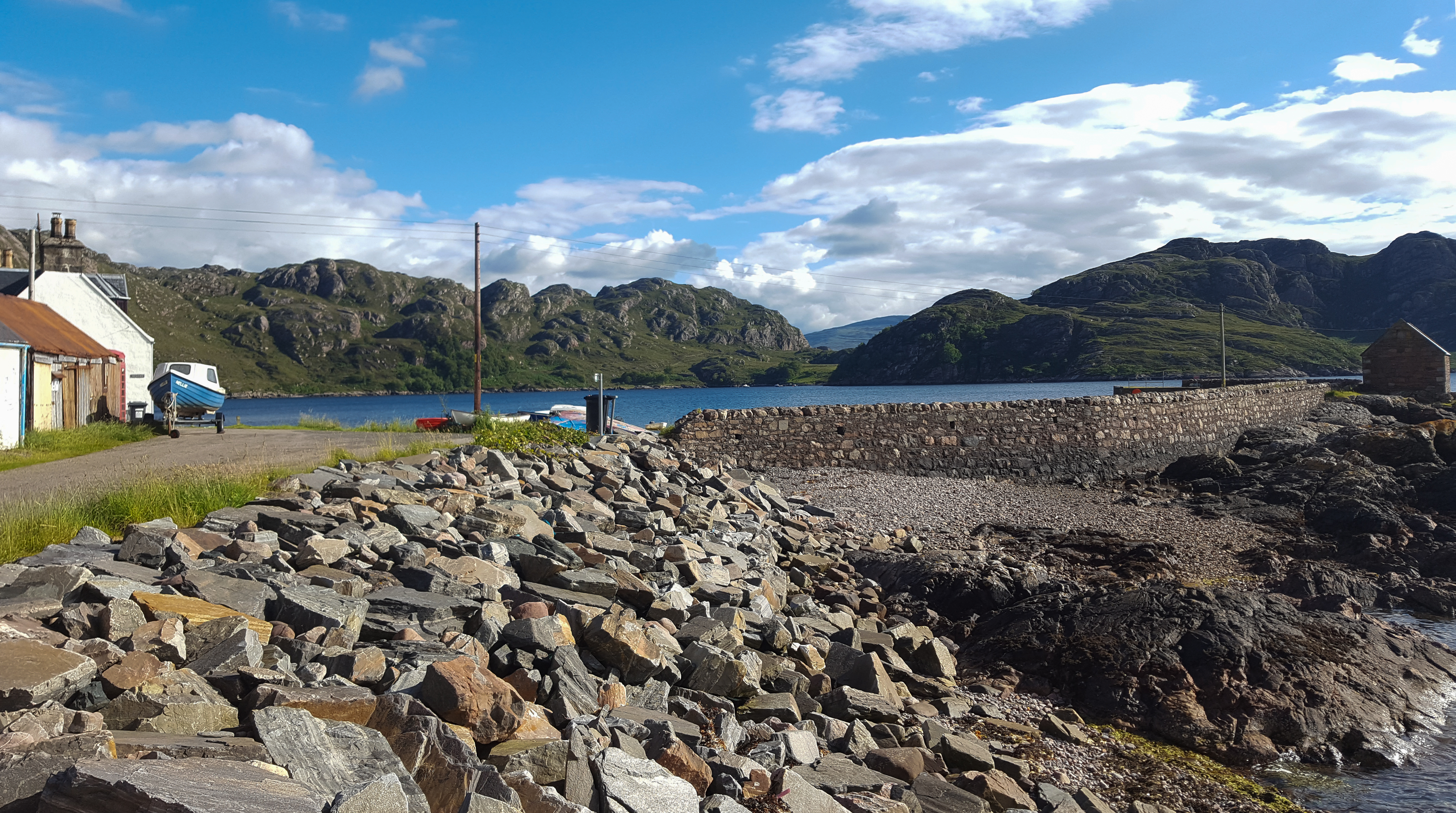 The foreshore and pier at Lower Diabaig, Scottish Highlands